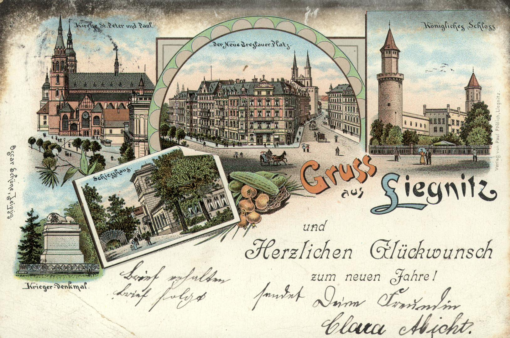 View of the castle in Legnica, 19th century